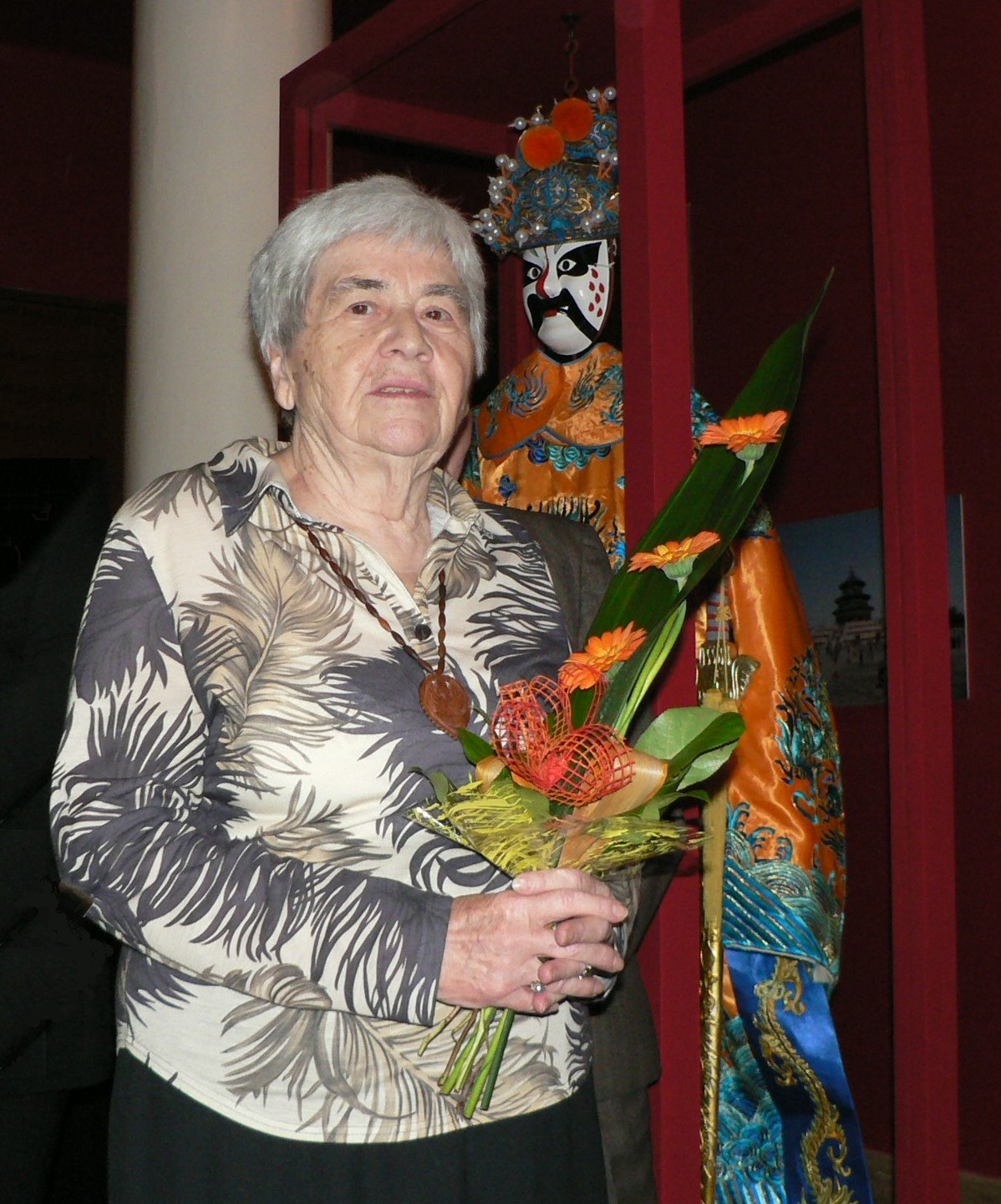 Zdenka Heřmanová by the vernissage of exposition in Holice.